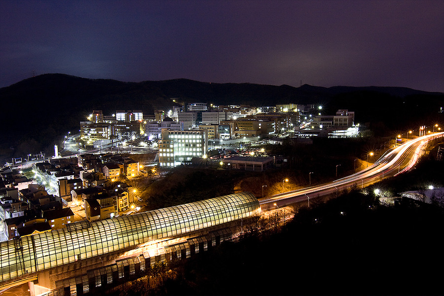 Dankook University, a great night(Jukjeon, Lot Area: 1,010,385㎡ or more)